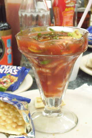 Oyster and shrimp ceviche from El Jardin del Pulpo. Ceviche is a tasty Mexican treat.